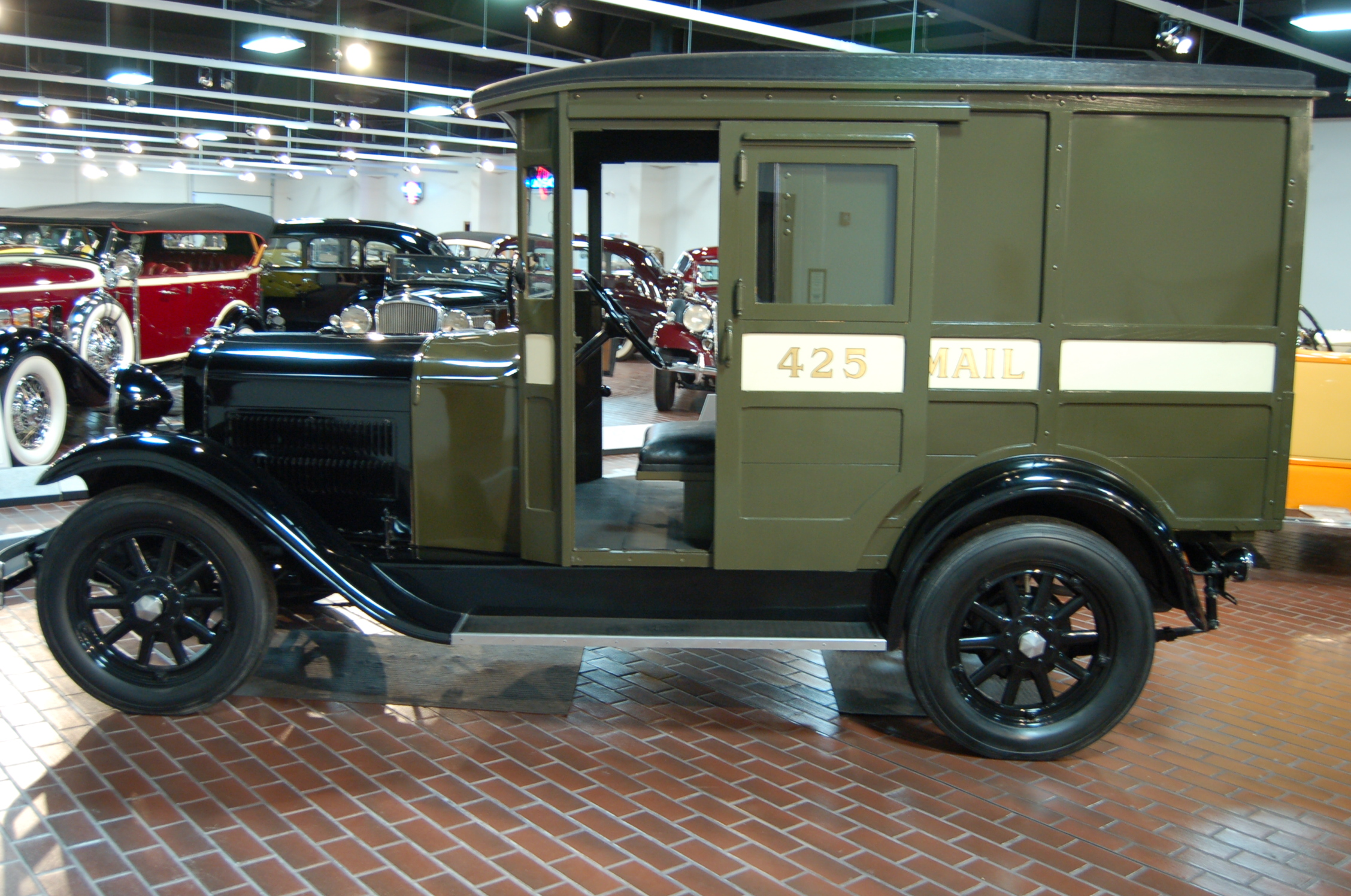 1929 Dover US Mail TruckHostetlers Hudsons 3-8-2008 Shipshewana, Indiana, United States